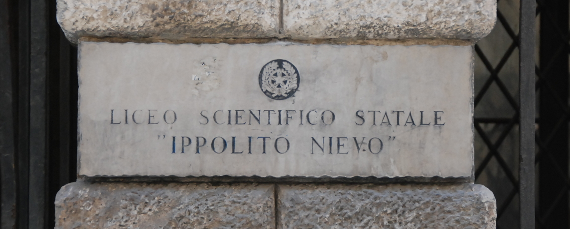 Sign of the "Ippolito Nievo High School", located in "Palazzo Cumani" - Padua